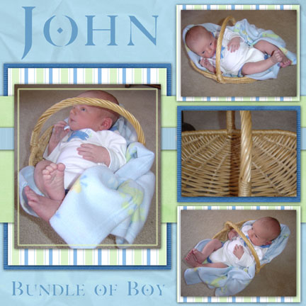 Sample of a digital scrapbooking page, created using Adobe Photoshop Elements 3.0 by Joy Schoenberger in February of 2006.